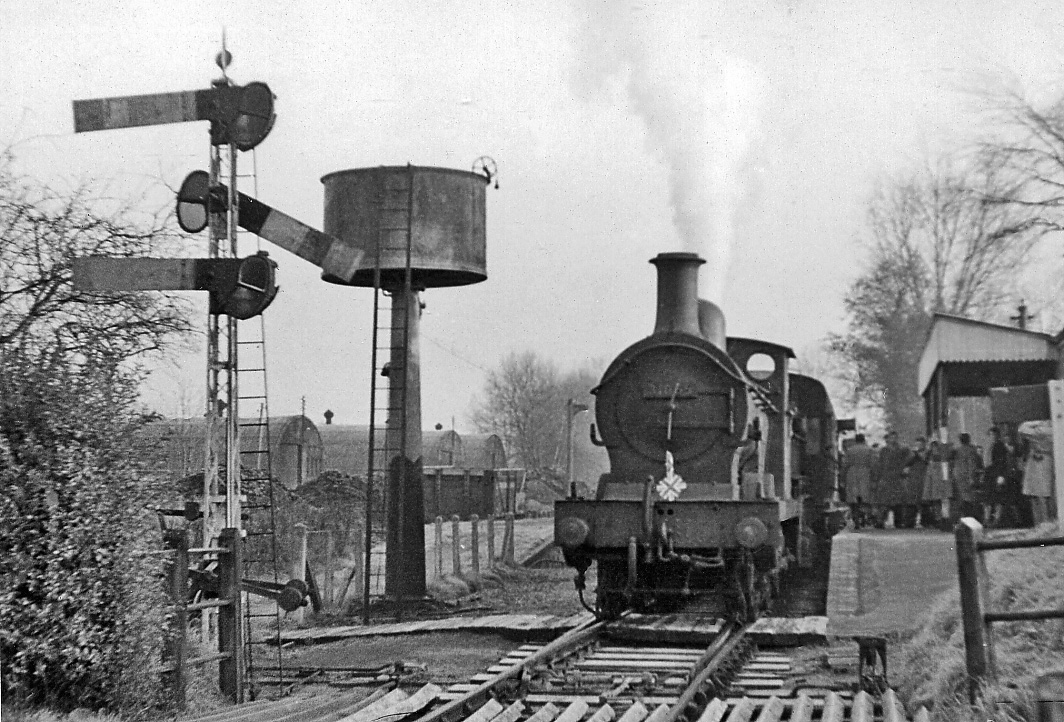 Tenterden Town station, with train from Headcorn on the Last Day of service. Ex-SE&C class O1 0-6-0 No. 31065 (built as class O in 8/1896, rebuilt as O1 9/1908, withdrawn 6/61) heads the 08.50 from Headcorn for the last time. The independent Kent & East Sussex Railway was closed to passengers that day (2/1/54), although goods continued to Robertsbridge until 12/6/61. The line south from Tenterden was reopened by the (heritage) Kent & East Sussex in stages from 2/74, reaching Bodiam in 2000. [I had to get up extraordinarily early on a dark and cold January morning to reach Headcorn from London in time to catch this train].